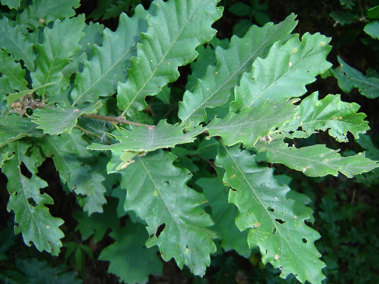 Quercus cerris foliage, Bulgaria.